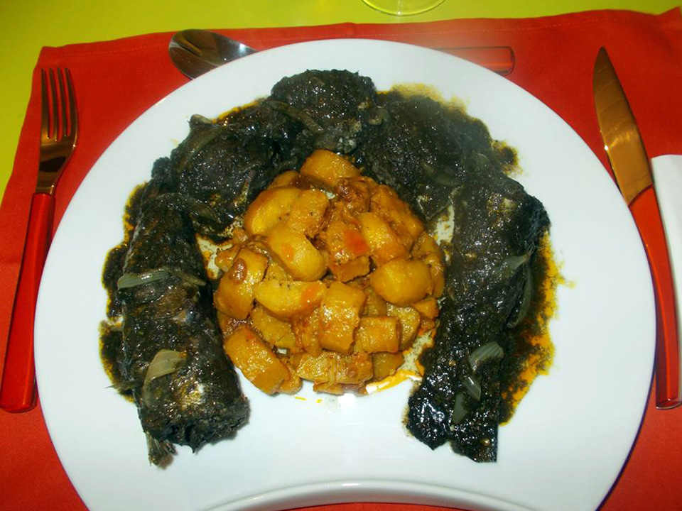 This is an image of food from Cameroon